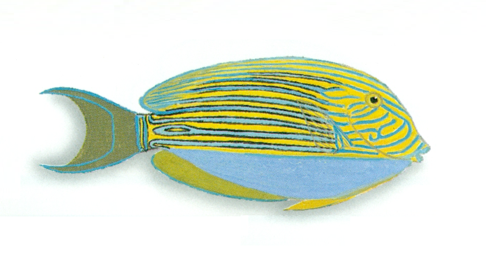 Acanthurus_lineatus